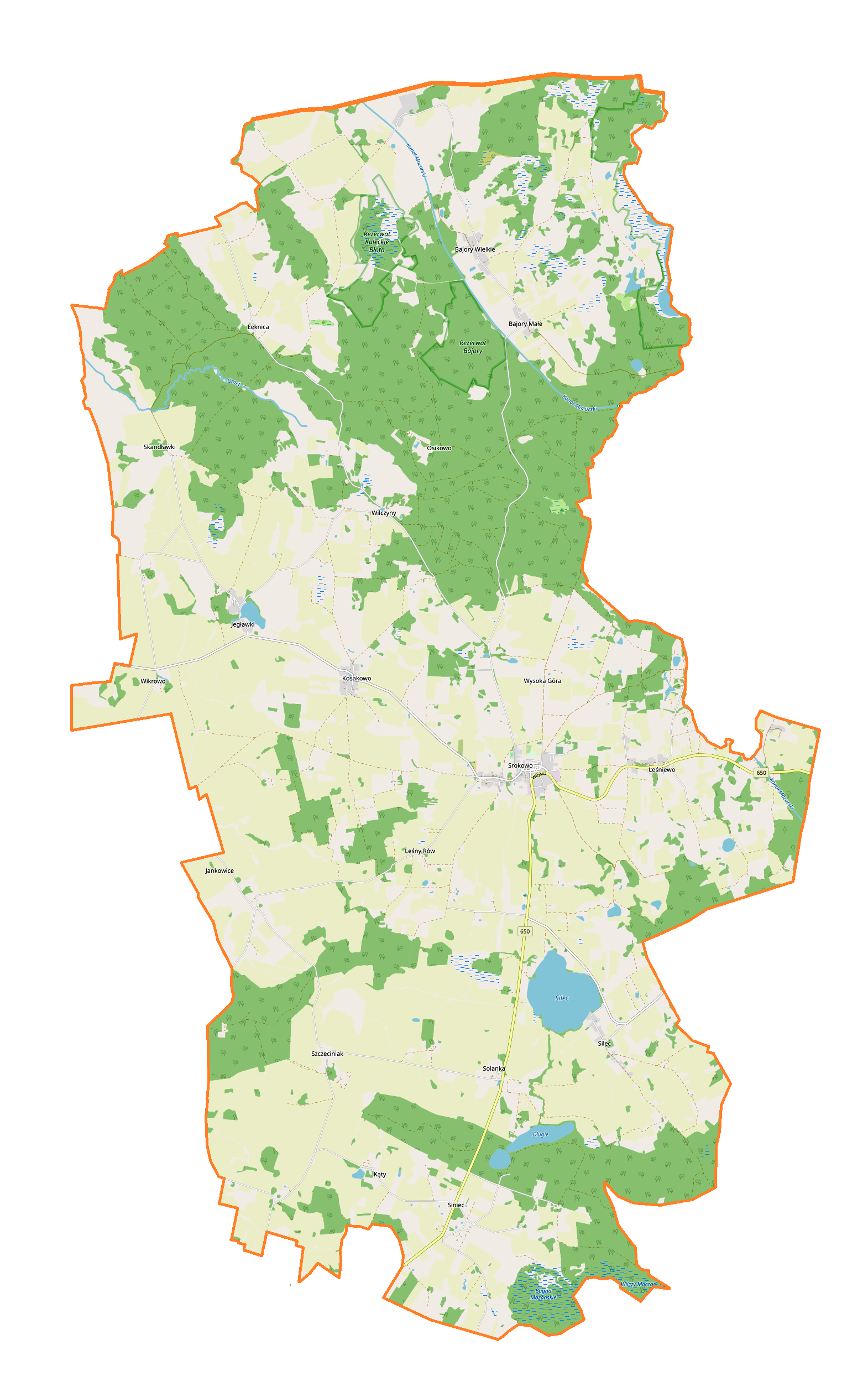 Location map